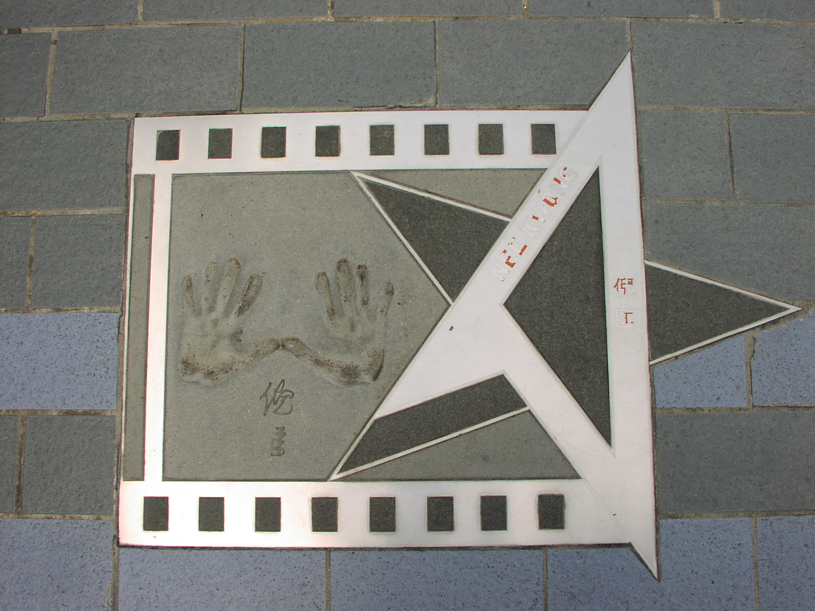 Avenue of Stars, Hong Kong